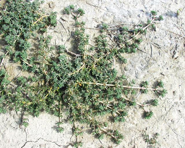 (en) Frankenia laevis , a photograph originating at the internet site The consent of the photographer, H. Brisse, is here. (fr) Frankenia laevis , une photographie issue du site internet L'accord de l'auteur, H. Brisse, se situe ici.